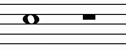 A whole note and a whole rest on a staff. Created for the whole note article.